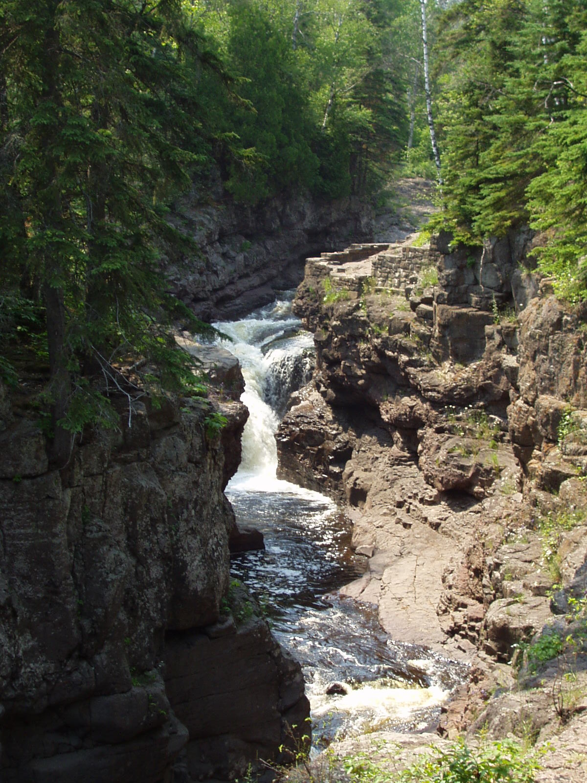 Temperance River State Park in Minnesota, on the north shore of Lake Superior. Category:Images of Minnesota